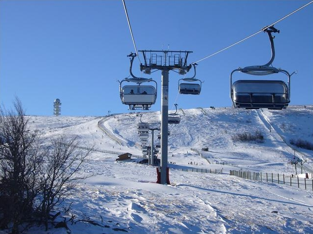 Chairlift Les Jasseries at Chalmazel (Loire, France)